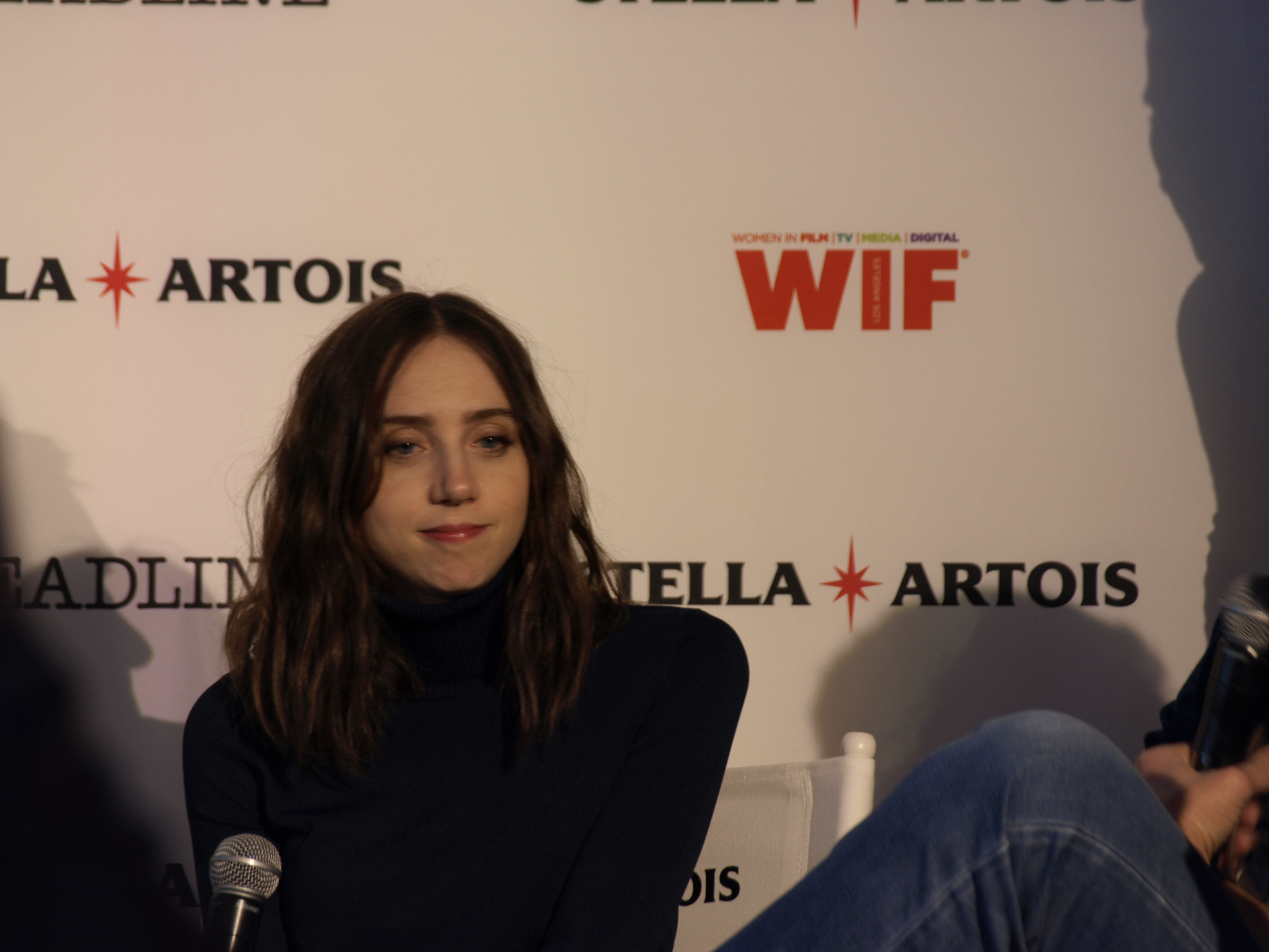 "The Big Sick" panel at Sundance 2017, Park City UT